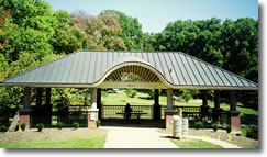 photo of Latta Park Pavilion, Charlotte, NC